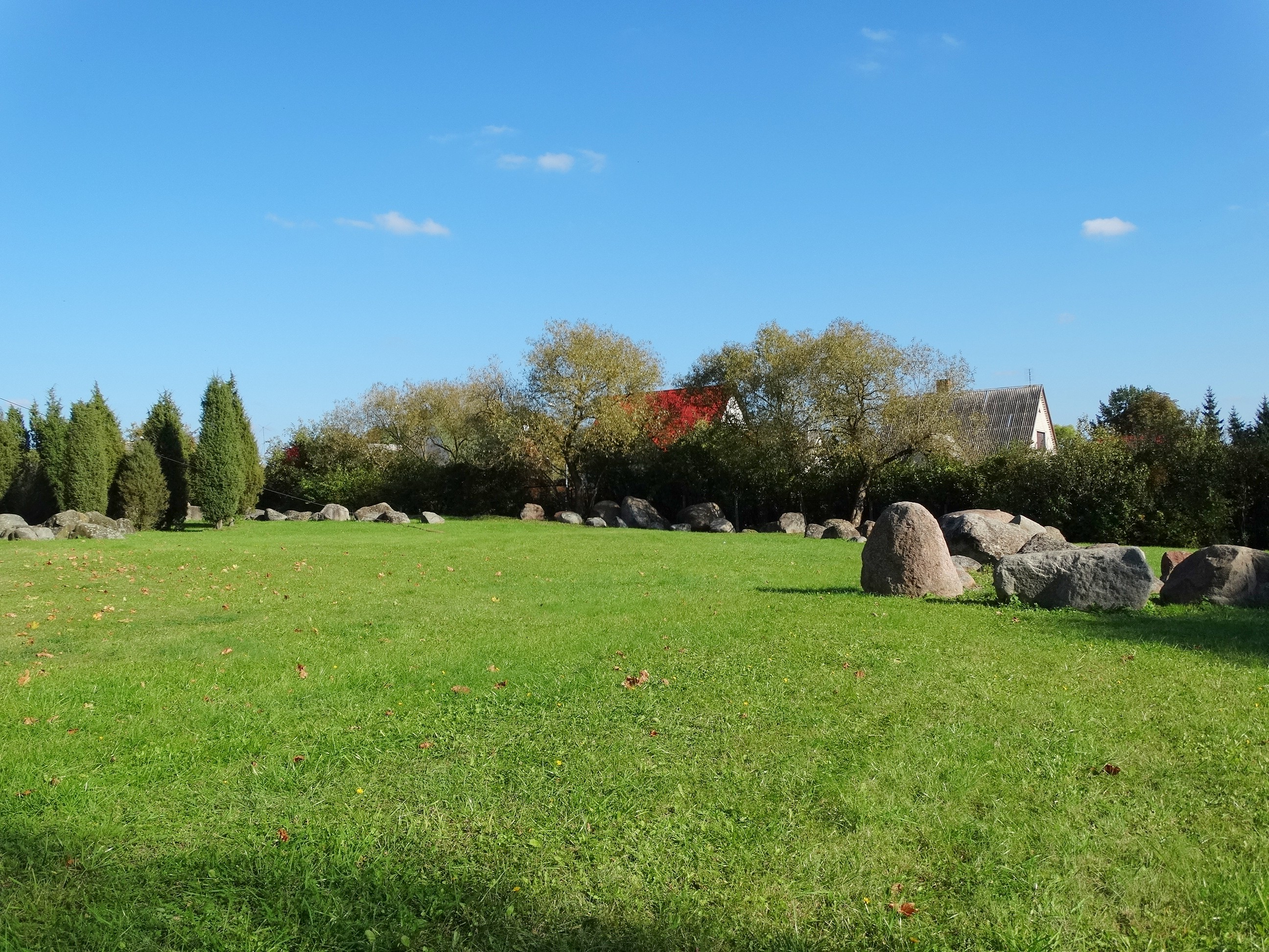 Vievis, museum of geology, Elektrėnai Municipality, Lithuania